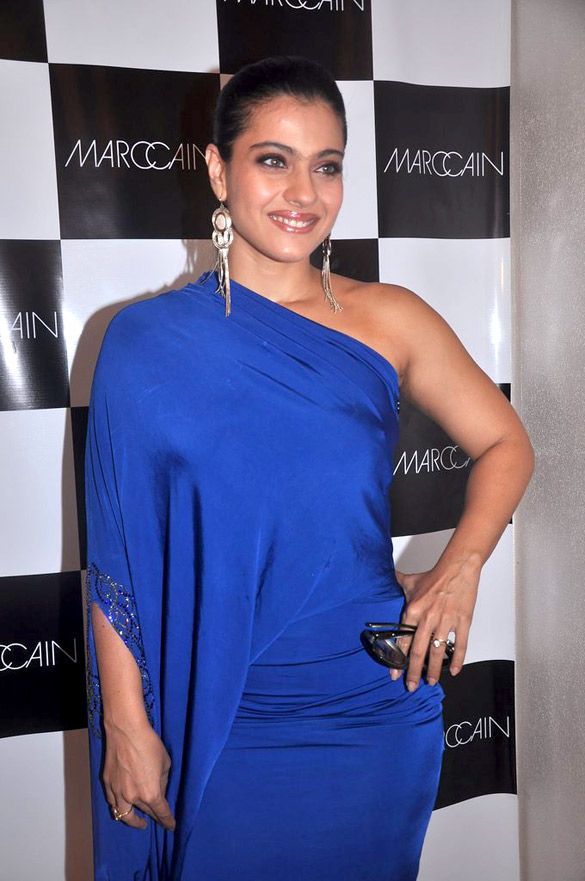 Kajol at Marc Cains preview.